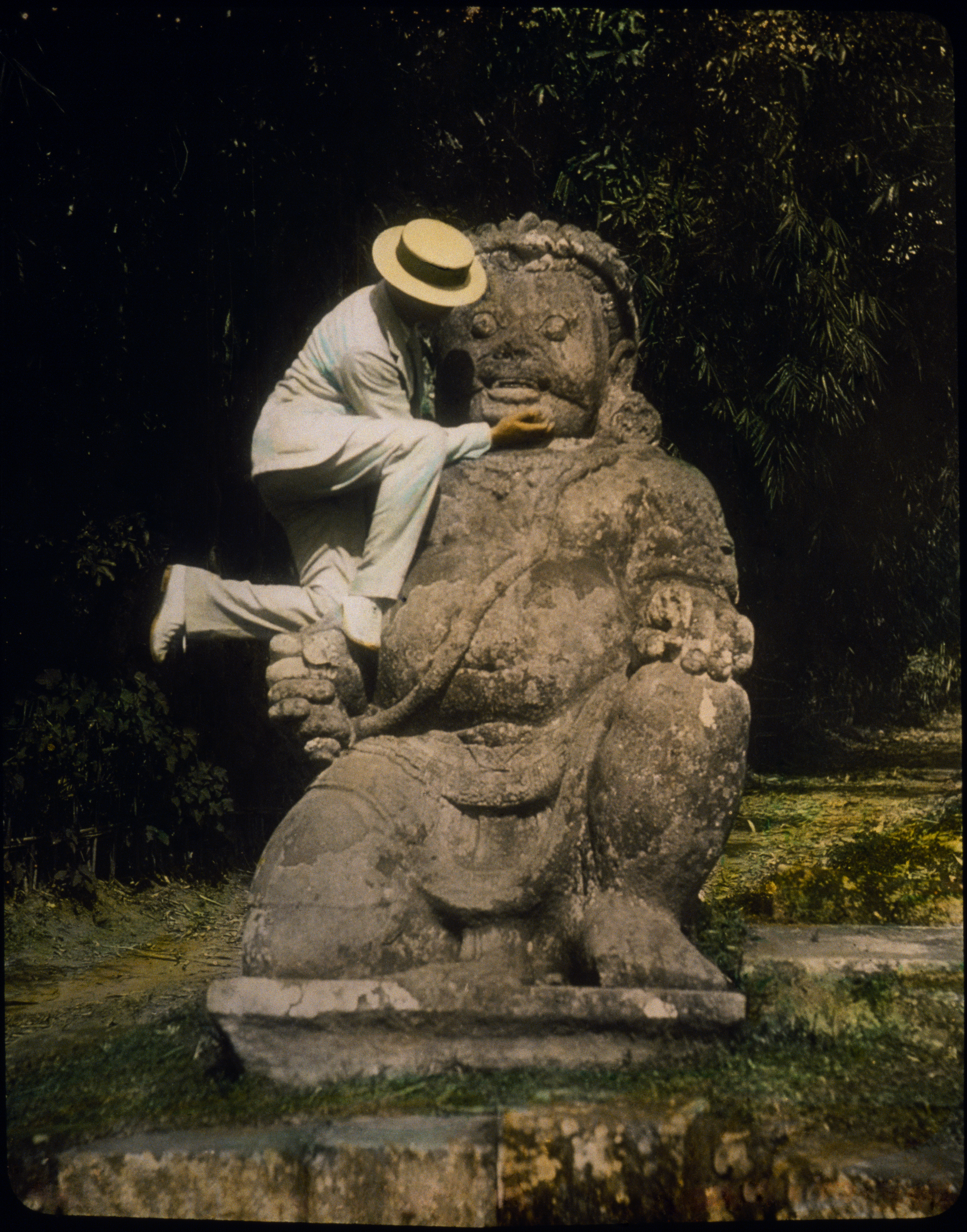 "Man in straw hat standing on Buddhist idol at ruins of Borobudur, 1 slide : lantern, hand colored ; 3.25 x 4 in. This dvarapala guardian statue once found on Dagi Hill near Borobudur was probably the statue taken to Thailand by King Chulalongkorn of Siam request in 1896, since today there is no dvarapala statue found in or near Borobudur."